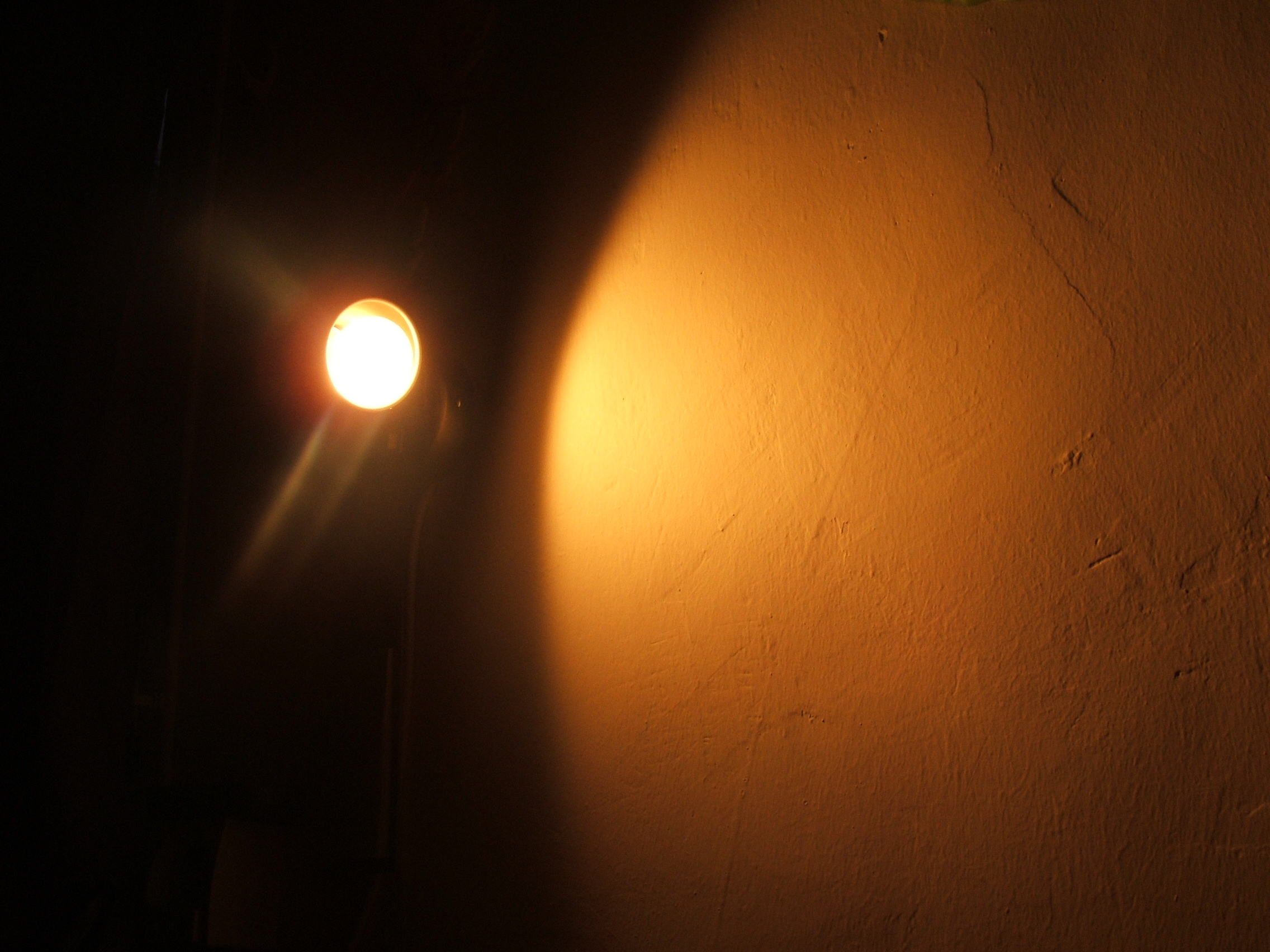 Night-light illuminates the wall